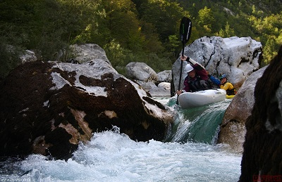 Powerstroke right before preparing the boof.